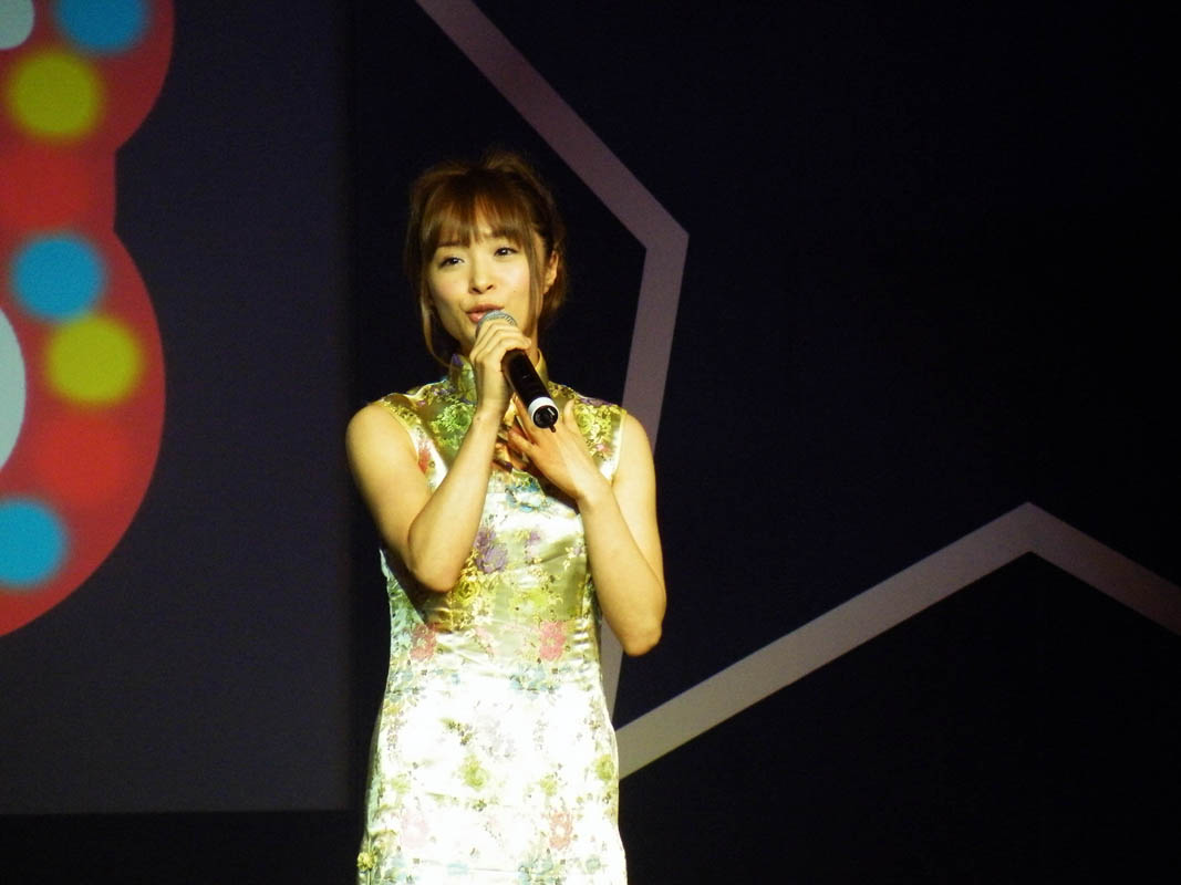 Mihiro at ASIA ADULT EXPO 2010.